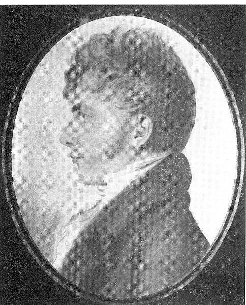 Portrait of Pierre Michel Grain by Charles Balthazar Julien Févret de Saint-Mémin (1770-1852)